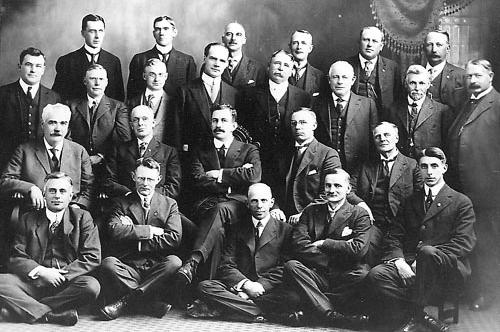 The Directors of the United Grain Growers. Back row L-R: John Edward Brownlee (Calgary, Alberta); J.J. McLennan (Purple Springs); F.J. Collyer (Welwyn, Saskatchewan); F.M. Gates (Fillmore, Saskatchewan); H.C. Wingate (Cayley); J.F. Reid (Orcadia, Saskatchewan). 2nd row L-R: G.F. Chipman (Winnipeg, Manitoba); W. Moffat (Souris); W.H. Trueman (Winnipeg, Manitoba); E.J. Fream (Calgary, Alberta); C.F. Brown (Calgary, Alberta); R. McKenzie (Brandon, Manitoba); Rice Shepard (Edmonton, Alberta); R.A. Bonnar (Winnipeg, Manitoba). 3rd row L-R: J. Kennedy (Winnipeg, Manitoba); Henry Wise Wood (Carstairs, Alberta) Thomas A. Crerar (Winnipeg, Manitoba); C. Rice-Jones (Calgary, Alberta); R.C. Henders (Culross, Manitoba). Front row L-R: R.A. Parker (Winnifred, Alberta); P.S. Austin (Ranfurly, Alberta); J Morrison (Yellowgrass), Saskatchewan); E. Carswell (Calgary, Alberta); P.P. Woodbridge (Calgary, Alberta).